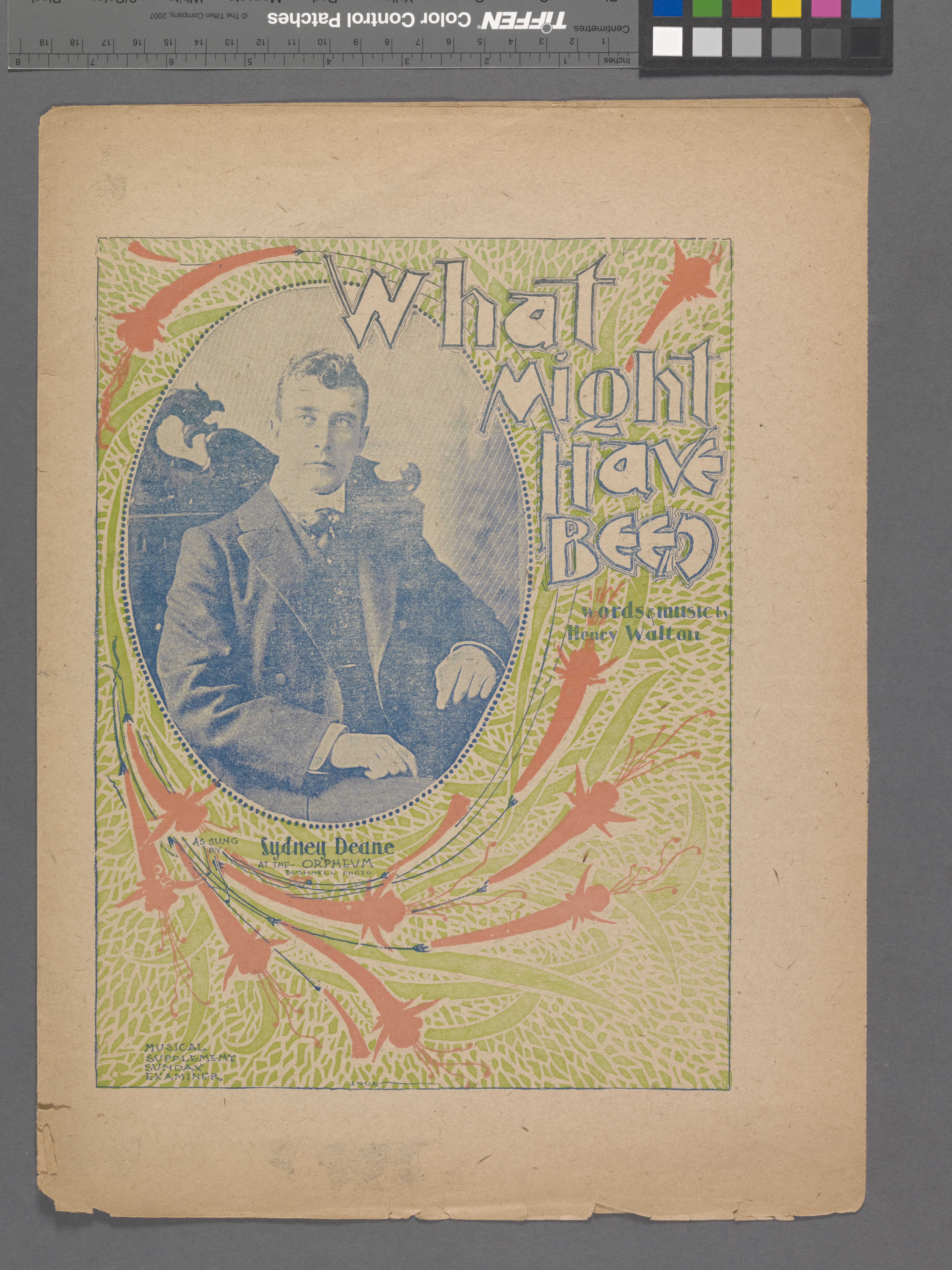 Musical supplement Sunday Examiner. On cover: Sydney Deane. Statement of responsibility : words and music by Henry Walton.